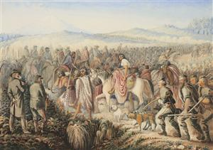 On General Chute’s march, West Coast Maker Role Date von Tempsky, Gustavus painter circa 1866 Medium Summary watercolour Materials watercolour, paper Dimensions Image 252 (Height) x 355 (Length) mm Support 252 (Height) x 355 (Length) mm Classification watercolours Registration Number 1992-0035-1186 Credit Line Gift of Sir William Fox, 1872